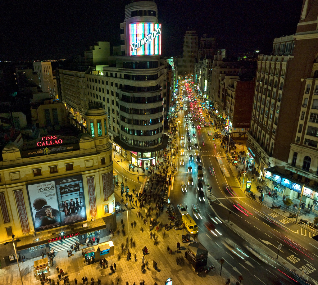 View of the Capitol Building and the Gran Via street. This photograph can be used for publications, including this copyright statement: “©PromoMadrid, author Alfredo Urdaci”. Esta fotografía puede usarse en publicaciones, incluyendo la declaración “©PromoMadrid, autor Alfredo Urdaci”.